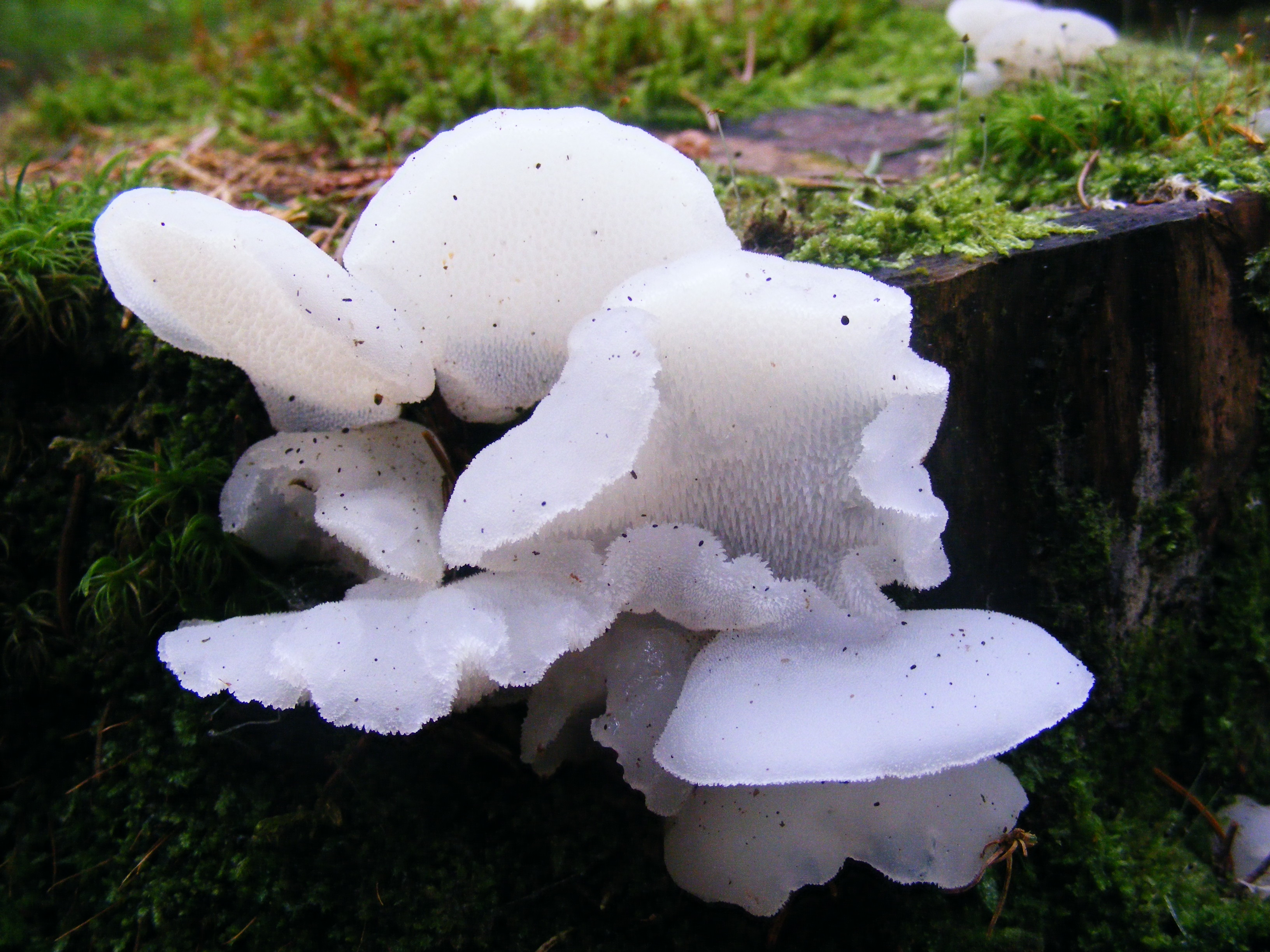 Pseudohydnum gelatinosum